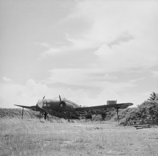 Kota Bharu, Malaya. 1941. A decoy Lockheed Hudson aircraft at RAF Kota Bharu. The Hudson was non-operational and was used to lure any enemy bombers away from the real runway. Note the supports under the wings used to hold the decoy upright. The RAAF had two General Reconnaissance Squadrons flying Lockheed Hudson aircraft in Malaya. No. 1 Squadron was stationed at RAF station Kota Bharu, No. 8 Squadron was stationed at RAF station Kuantan. The Squadrons were forced to retreat, along with the allied forces, in the face of the Japanese attack. (Donor: A. Blake)